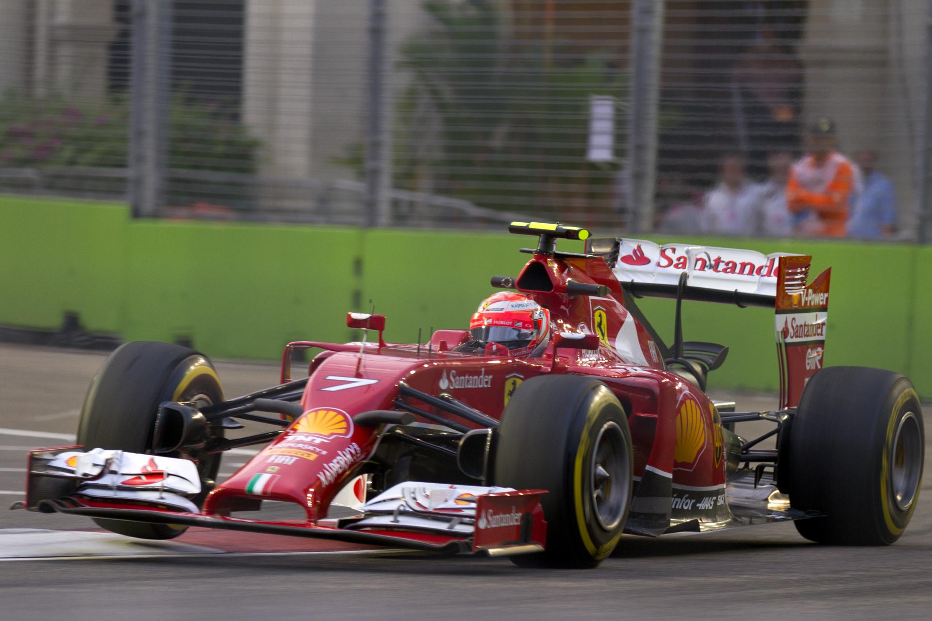 Formula One 2014 Rd.14 Singapore GP: Kimi Räikkönen (Ferrari)